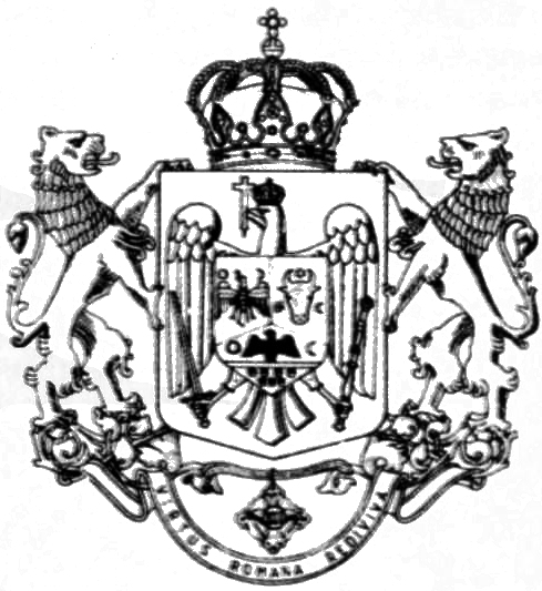 CoA of Romania. 1990 project